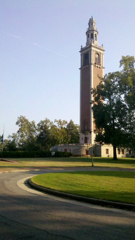 An image of the Carillon Tower in Richmond, VA.